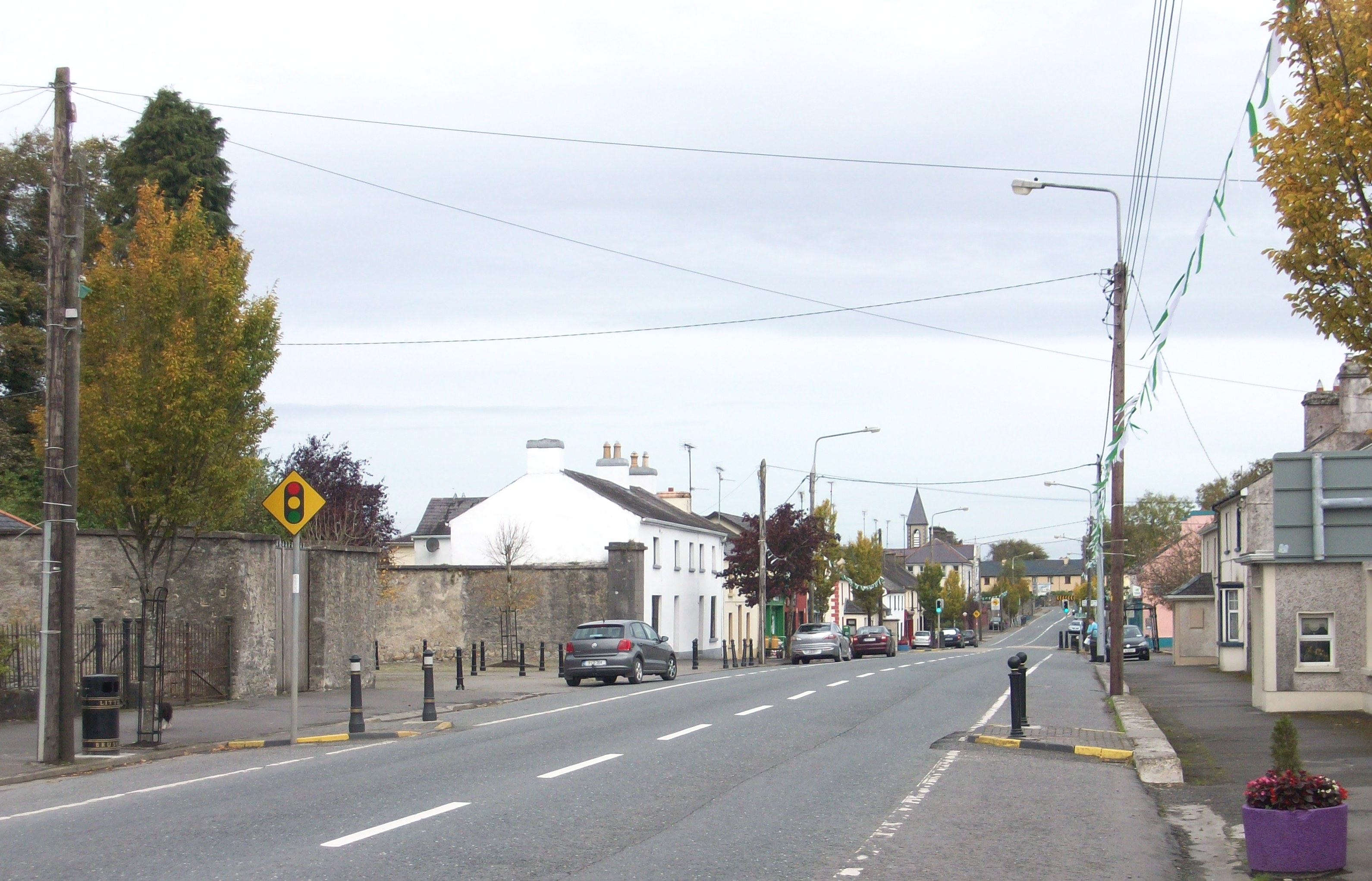 Newtownforbes Main Street - September 2011. To the left, the walls form part of the entrance to Castle Forbes. Just past them, the two-storey white building is the former RIC Barracks. In the distance, the spire of the former Sisters of Mercy Convent Chapel is visible.